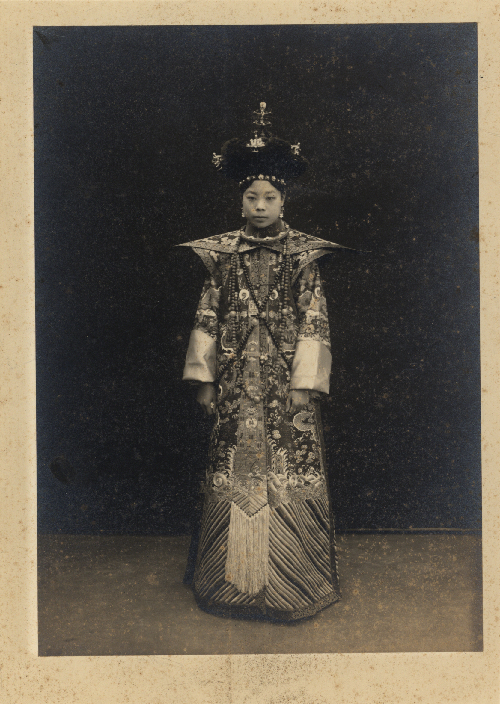 Wenxiu, a concubine of Emperor Puyi